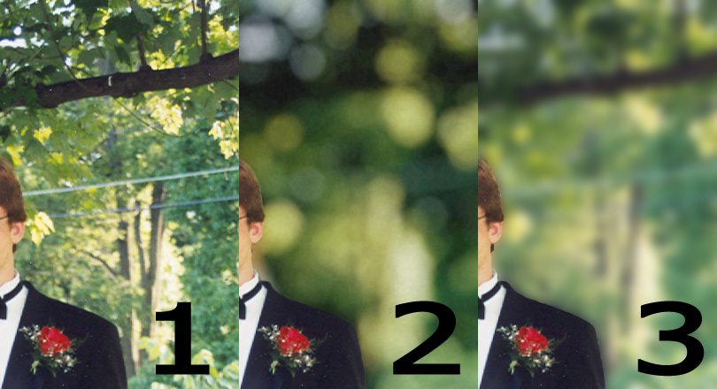 Comparison of bokeh (synthetic) and Gaussian blur. Original images are from Image:Faux-bokeh-original.png and Image:Faux-bokeh-final.png.